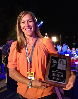 Leigh Donovan holding her induction plaque at the 2013 ceremony, held in chula vista, ca, at the olympic training center.